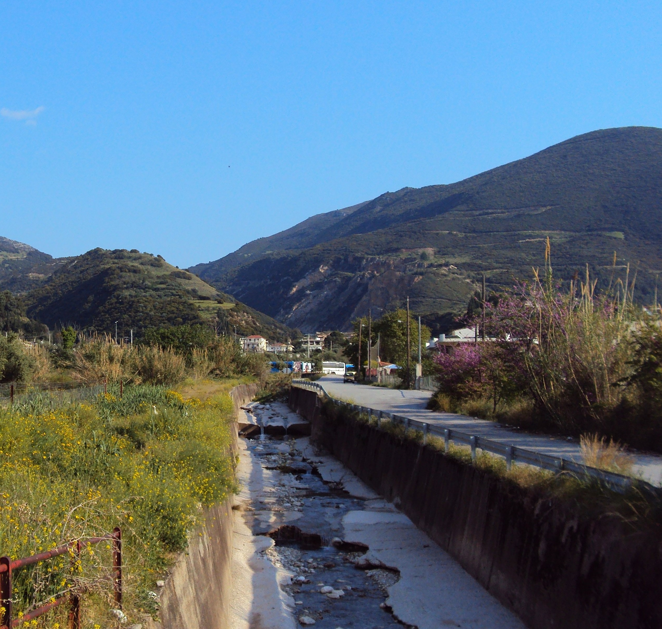 Xeropotamos torrent just after the place where Fileris torrent is poured into it. View from Agios Stefanos village area, Saravali, Achaia, Greece.